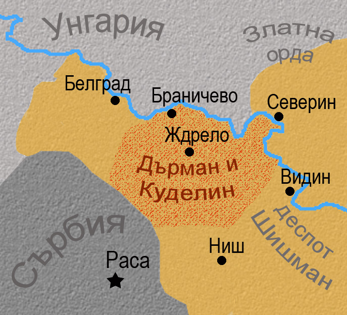 Possession of Darman and Kudelin. Balkans. In the late 13th century.